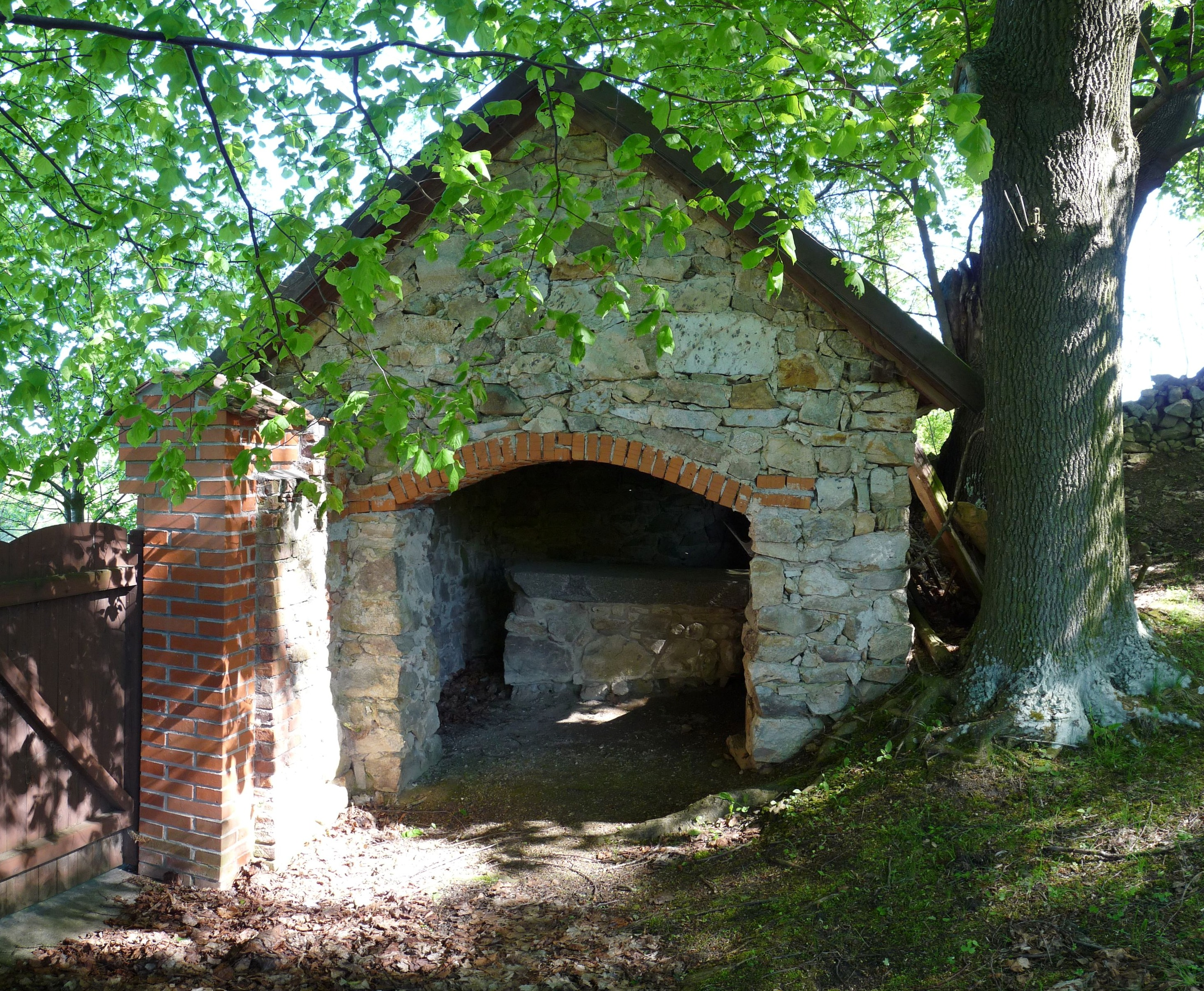 Ceremonial hall of the Jewish cemetery by the town of Jistebnice, Tábor District, South Bohemian Region, Czech Republic.